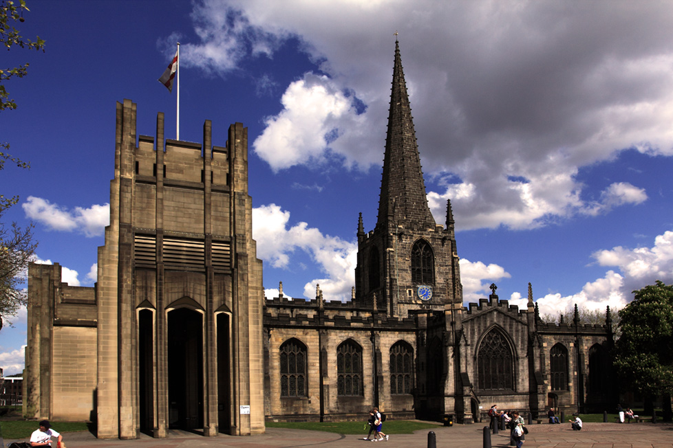 Sheffield Cathedral